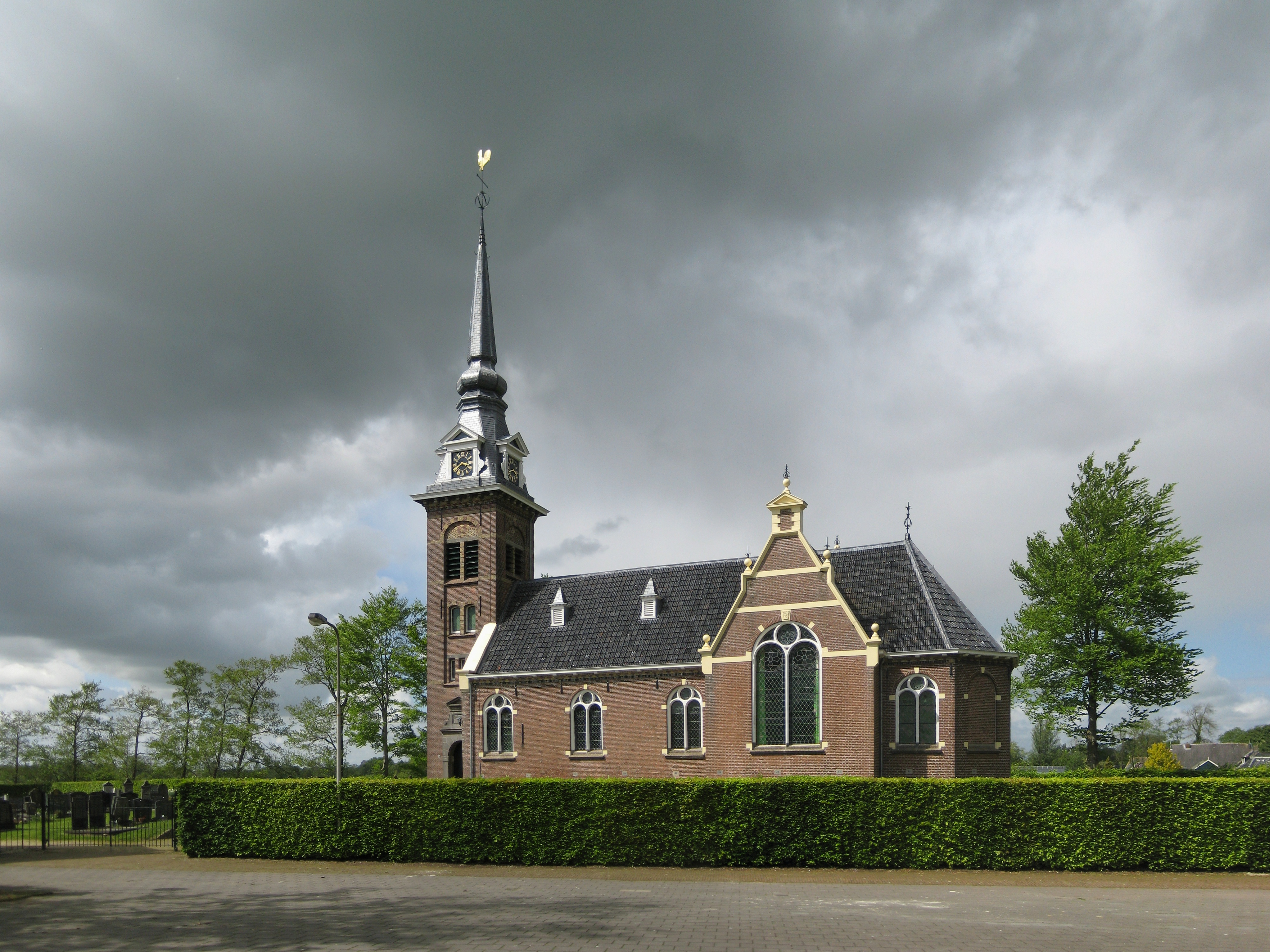 The Church of Tytsjerk, a village in the Dutch province of Fryslân.